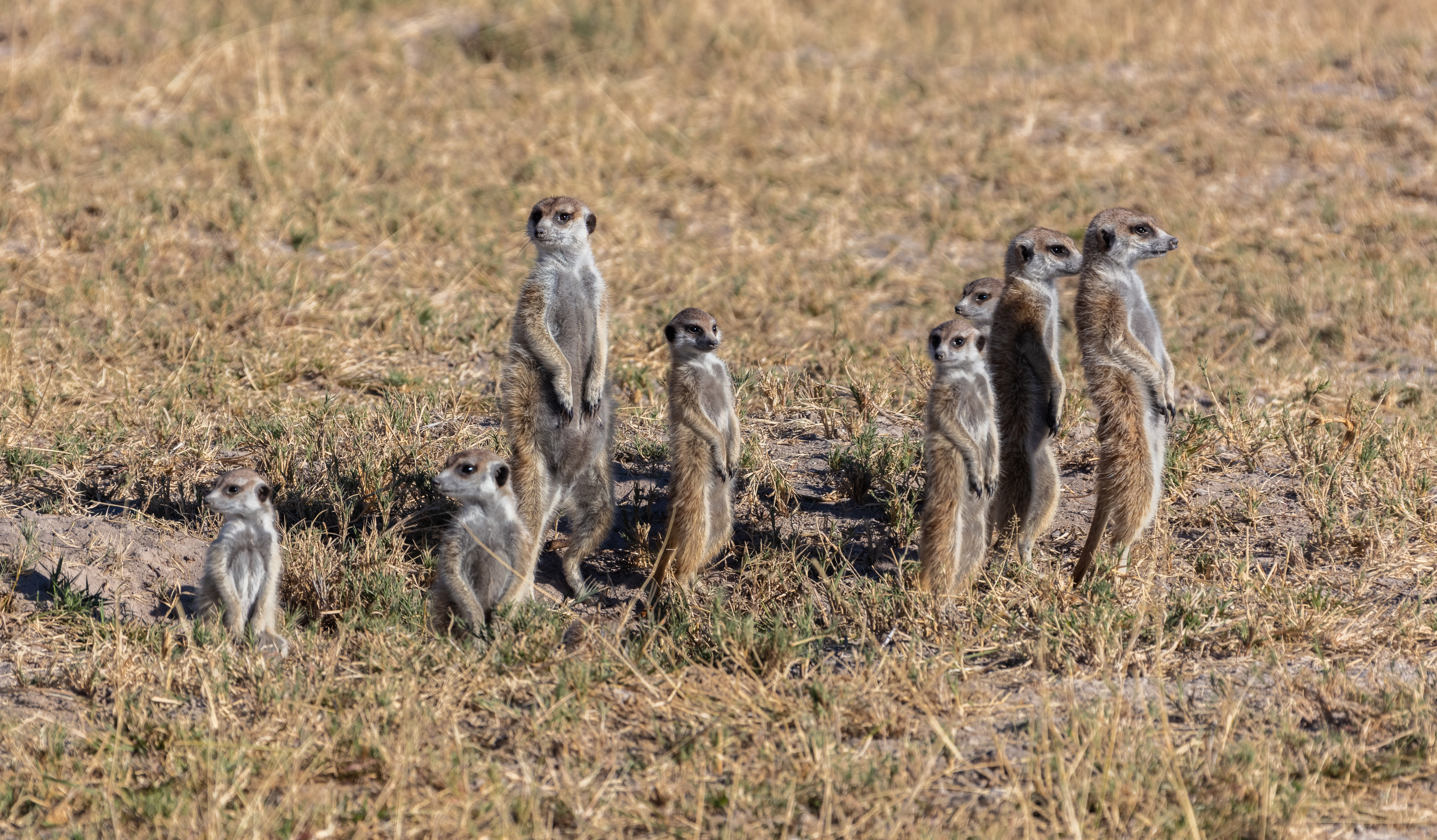 Meerkats (Suricata suricatta), Makgadikgadi Pans National Park, Botswana